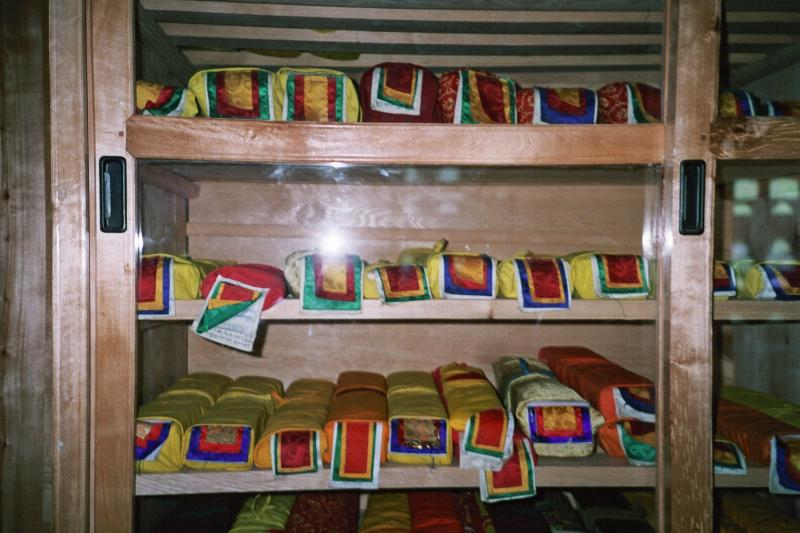 Nationale Biblotheek in Thimphu, Bhutan